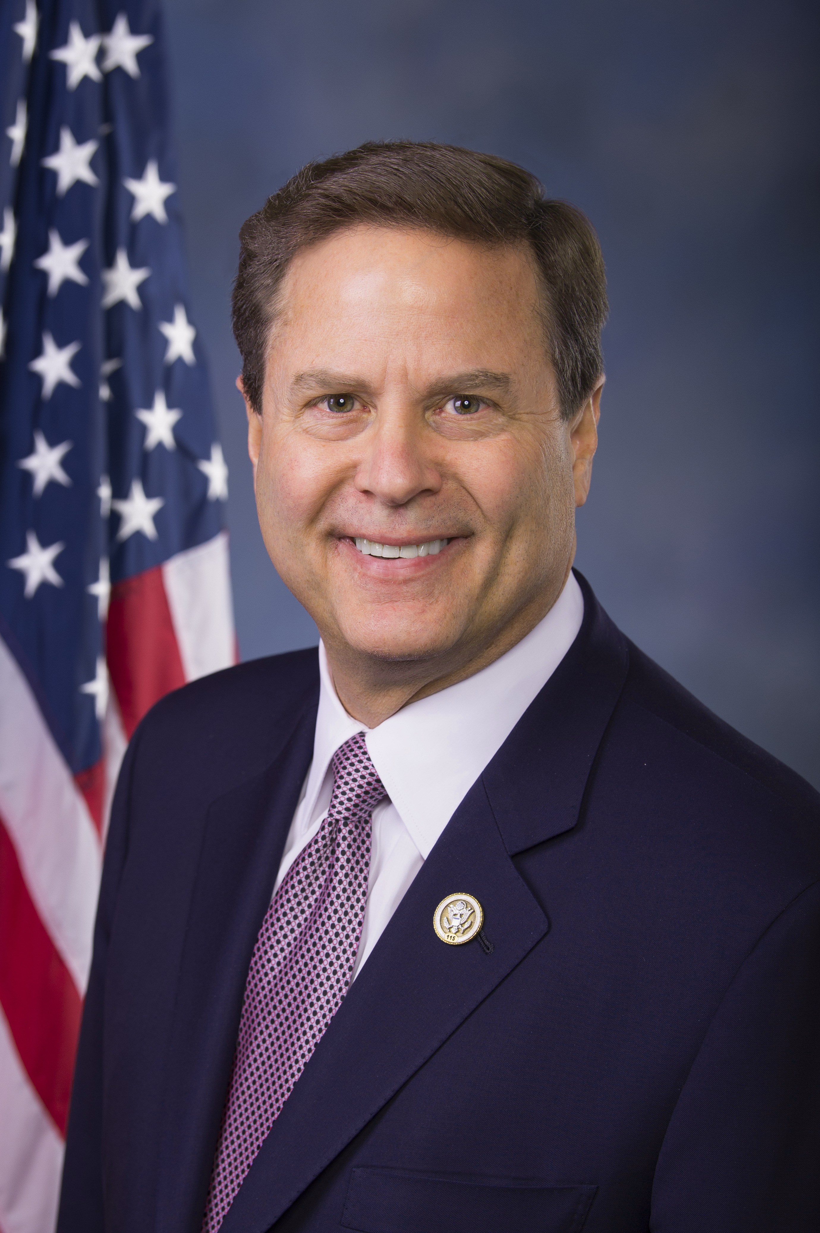 Donald Norcross official portrait